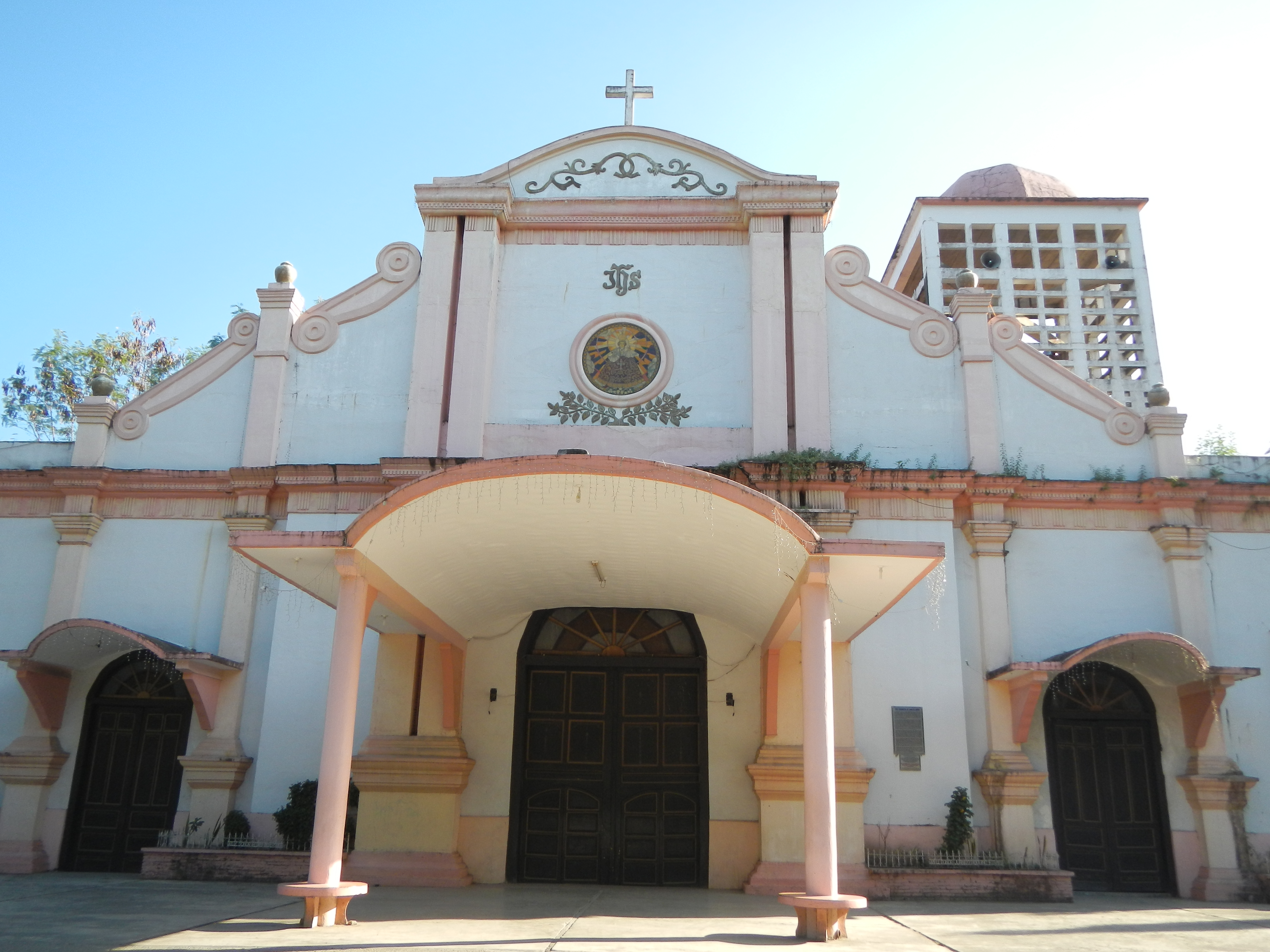 Binalonan, Pangasinan[1]